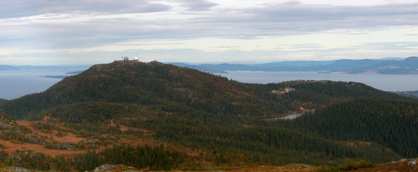 Gråkallen from Storheia. Trondheimsfjorden in the background. Summer 2004.